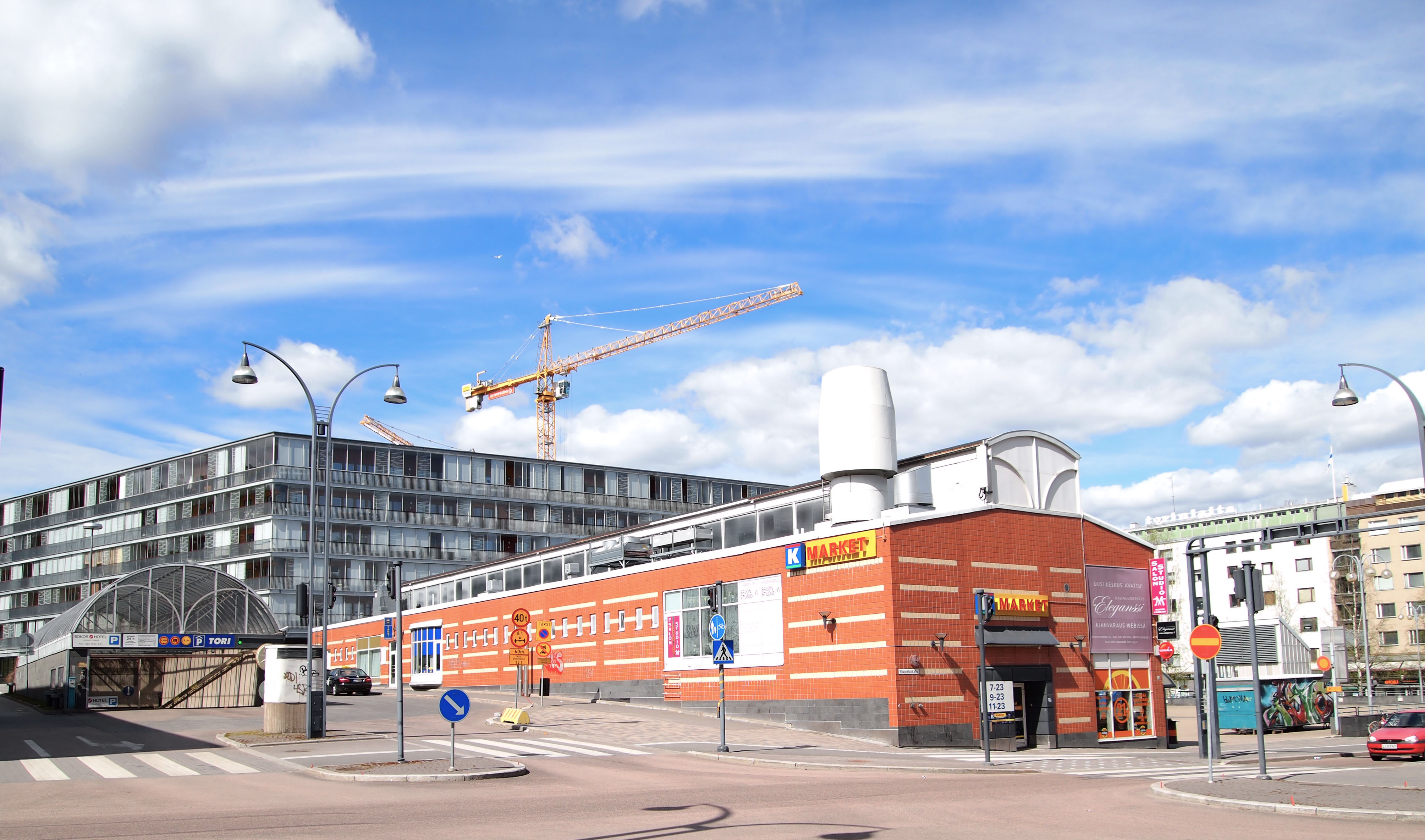 Building Kauppahalli in Jyväskylä.